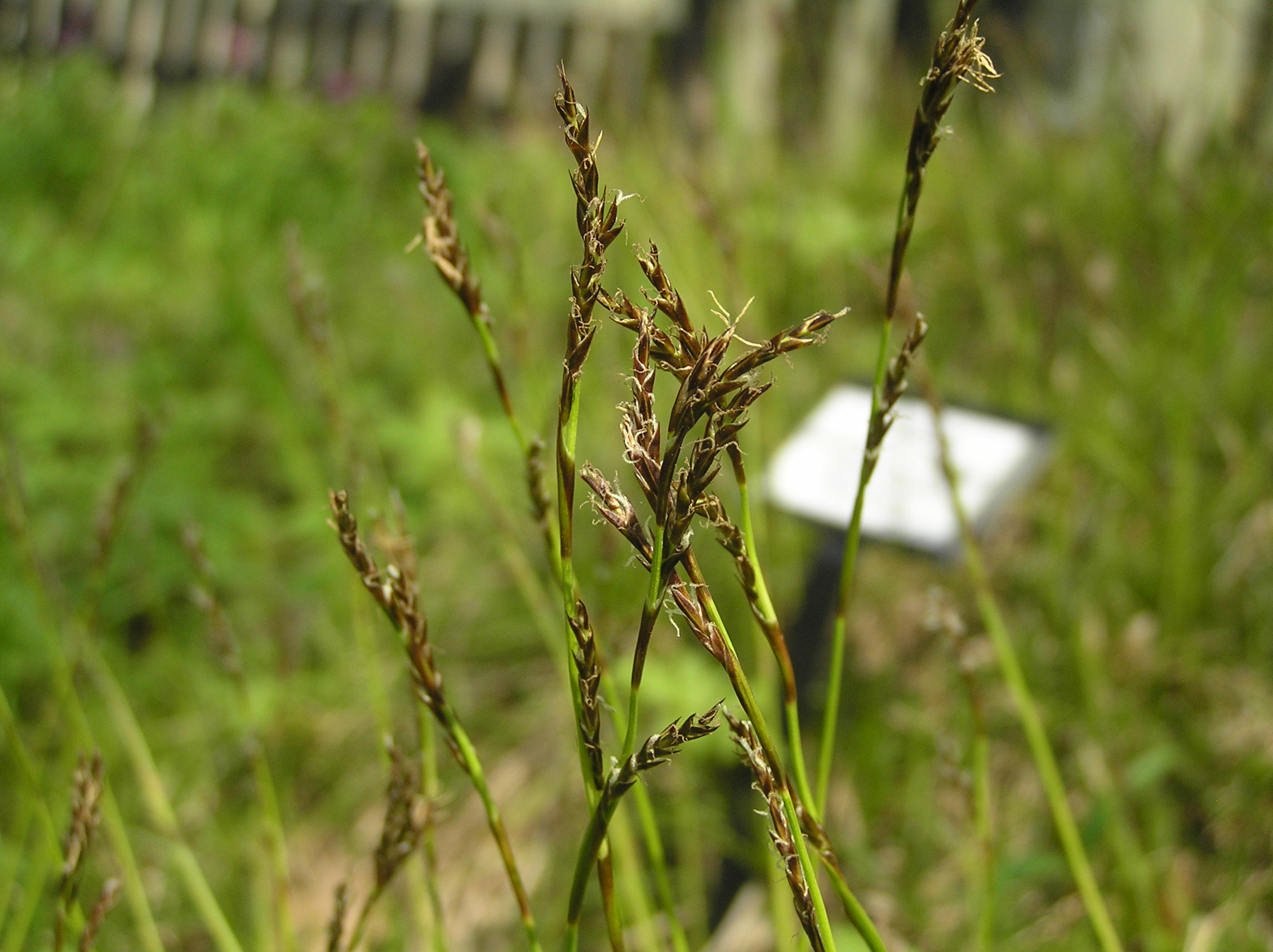 Carex pediformis, cultivated in Botanical Gardens in Brno, Kotlářská, Czech Republic